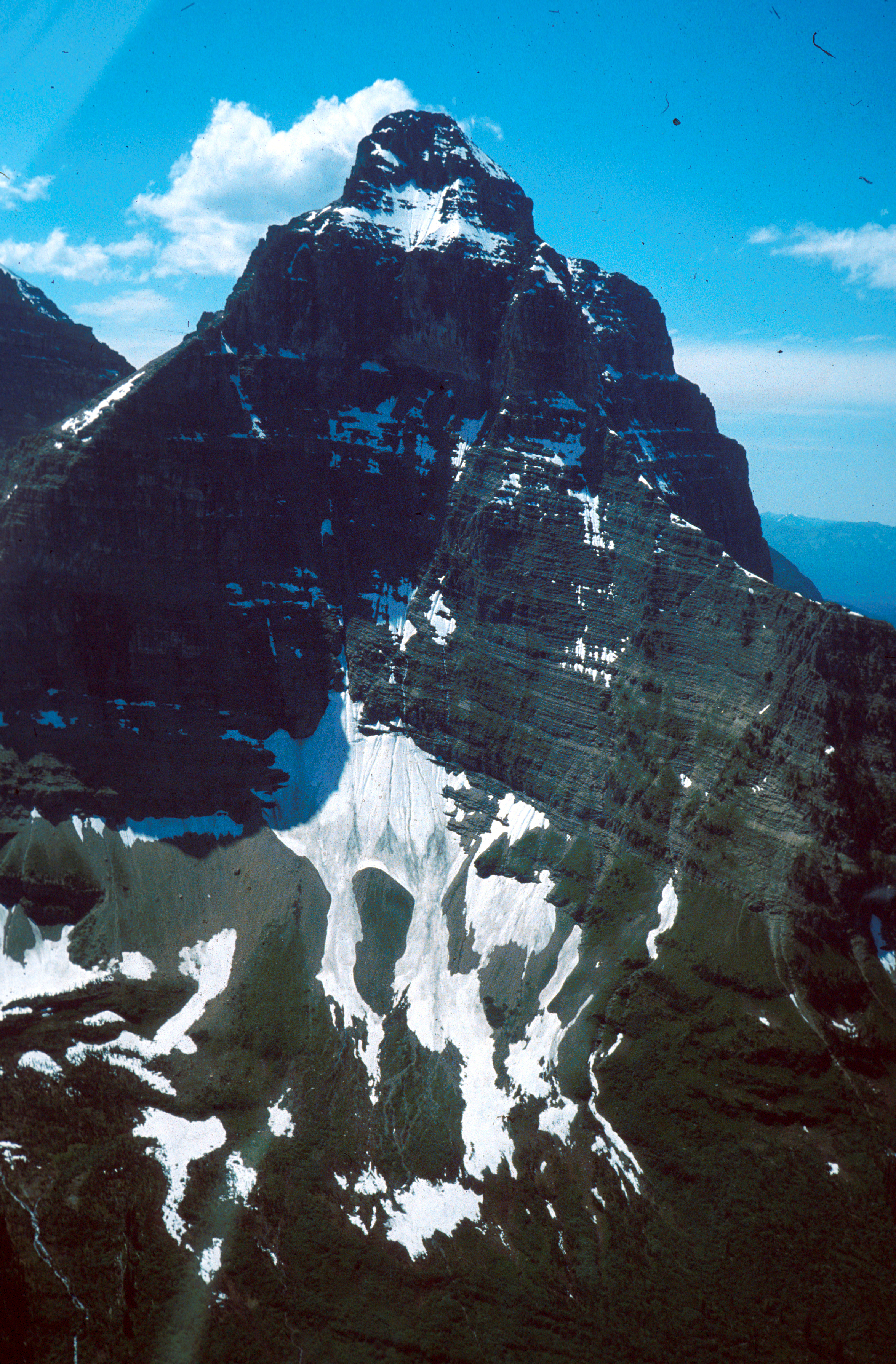 Kinnerly Peak — a glacial horn, in the Livingston Range, within Glacier National Park, Montana.